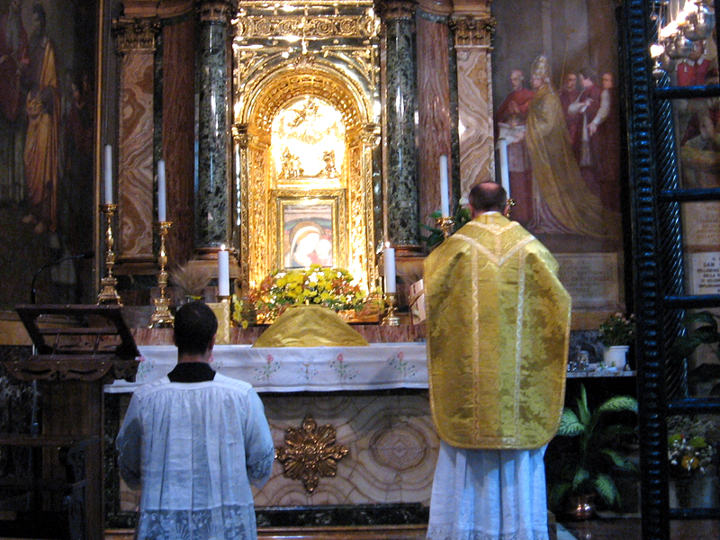 Reading of the Epistle - Tridentine Mass